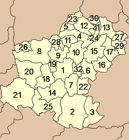 Map of Nakhon Ratchasima province, Thailand, with the districts (Amphoe) numbered. Mueang Nakhon Ratchasima (อำเภอเมืองนครราชสีมา) Khon Buri (อำเภอครบุรี) Soeng Sang (อำเภอเสิงสาง) Khong (อำเภอคง) Ban Lueam (อำเภอบ้านเหลื่อม) Chakkarat (อำเภอจักราช) Chok Chai (อำเภอโชคชัย) Dan Khun Thot (อำเภอด่านขุนทด) Non Thai (อำเภอโนนไทย) Non Sung (อำเภอโนนสูง) Kham Sakaesaeng (อำเภอขามสะแกแสง) Bua Yai (อำเภอบัวใหญ่) Prathai (อำเภอประทาย) Pak Thong Chai (อำเภอปักธงชัย) Phimai (อำเภอพิมาย) Huai Thalaeng (อำเภอห้วยแถลง) Chum Phuang (ชุมพวง) Sung Noen (อำเภอสูงเนิน) Kham Thale So (อำเภอขามทะเลสอ) Sikhio (อำเภอสีคิ้ว) Pak Chong (อำเภอปากช่อง) Nong Bun Mak (อำเภอหนองบุญมาก) Kaeng Sanam Nang (อำเภอแก้งสนามนาง) Non Daeng (อำเภอโนนแดง) Wang Nam Khiao (อำเภอวังน้ำเขียว) Thepharak (อำเภอเทพารักษ์) Mueang Yang (อำเภอเมืองยาง) Phra Thong Kham (อำเภอพระทองคำ) Lam Thamenchai (อำเภอลำทะเมนชัย) Bua Lai (อำเภอบัวลาย) Sida (อำเภอสีดา) Chaloem Phra Kiat (อำเภอเฉลิมพระเกียรติ)